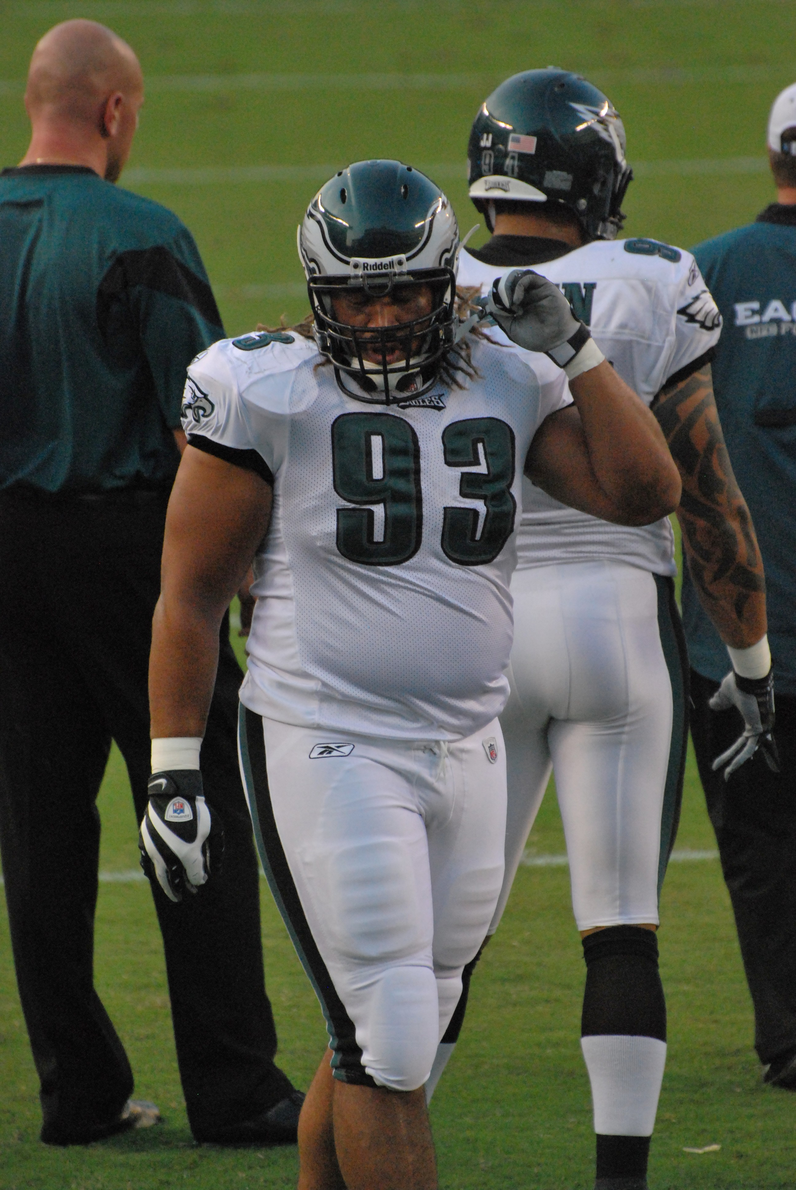 Trevor Laws in August 2009